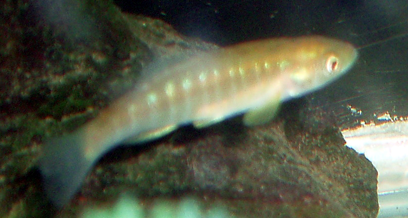 Banded killifish Fundulus diaphanus diaphanus